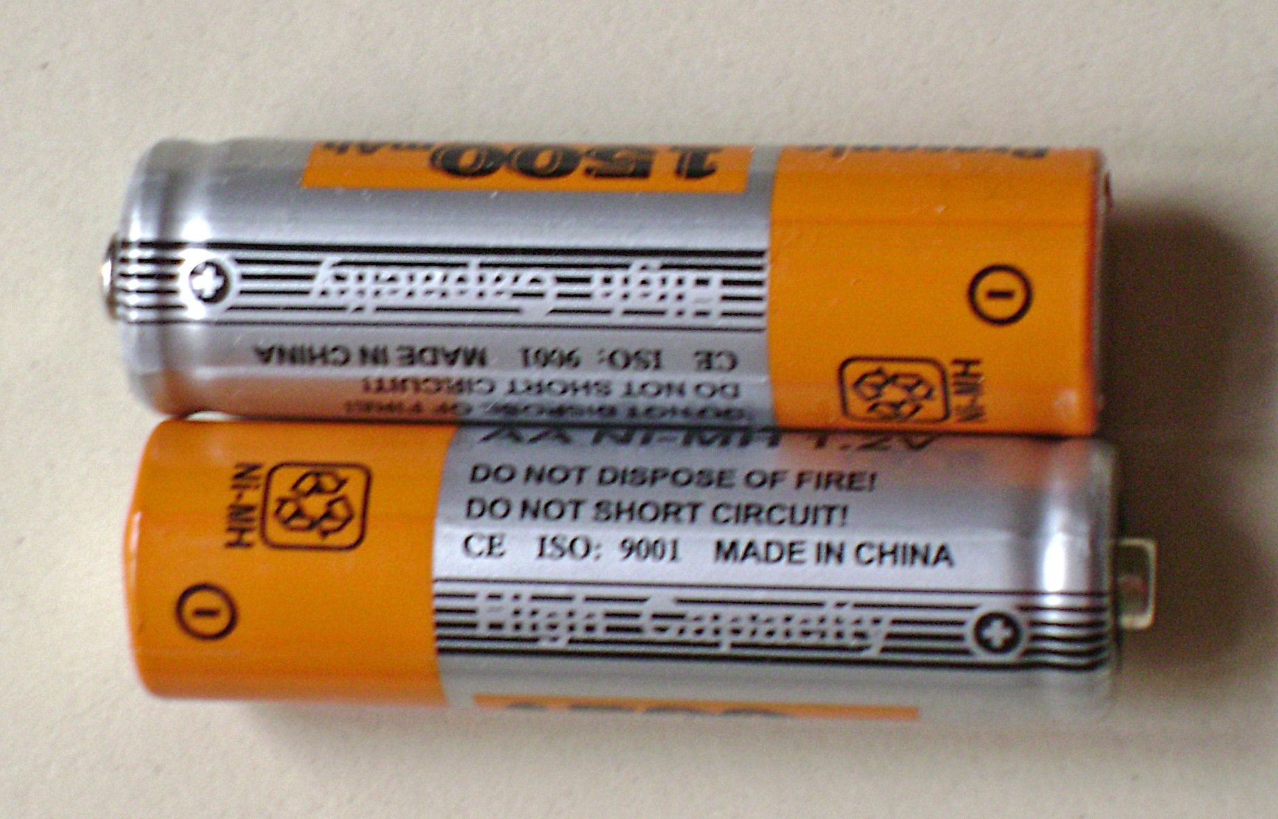 Rechargeable batteries